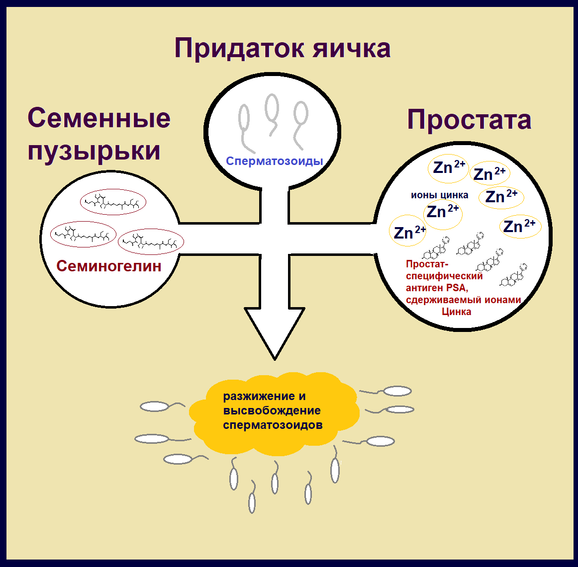 Semenogelin protein